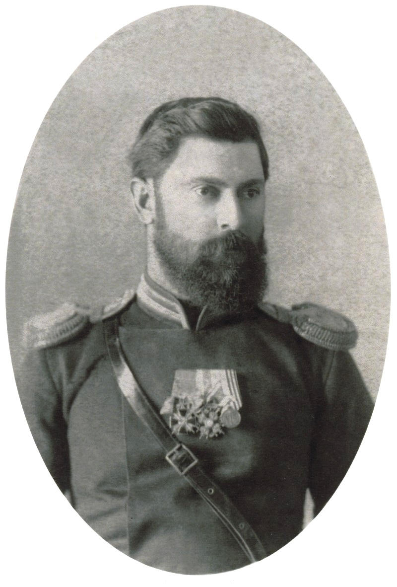 Muskhelov (Muskhelishvili) Efrem - prominent military leader, major general